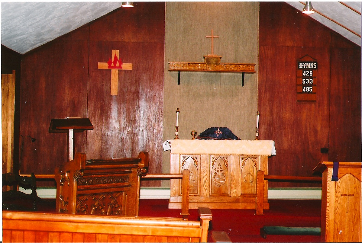 A view of the wooden altar, lecterns and communion rail at St. Thomas Anglican Church in Silver Creek, Quebec.